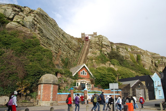 The East Hill Cliff Railway at Hasting, East Sussex, England. For more information see the Wikipedia article East Hill Cliff Railway .